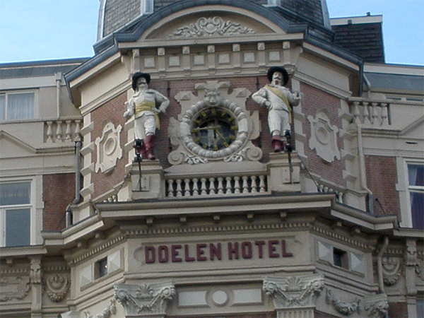 Tower of the Doelen Hotel in Amsterdam flanked by two kloveniers (militiamen). Their muskets have long since gone missing